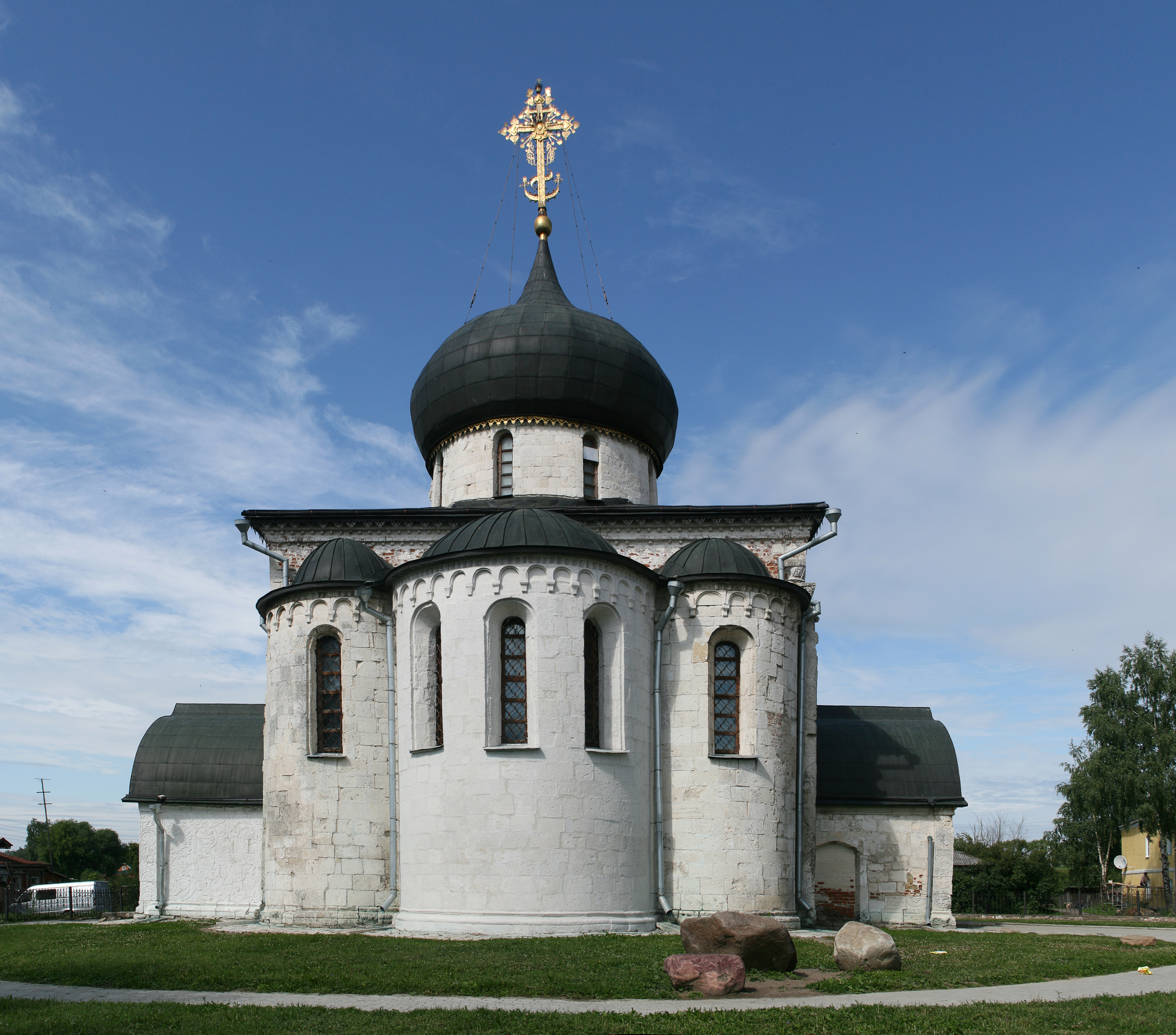 Saint George Cathedral, east side; 1230-1234, Yuryev-Polsky, Vladimir Oblast